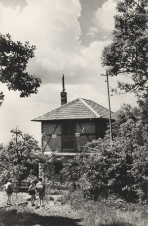 The turistic house on the Black-mounth